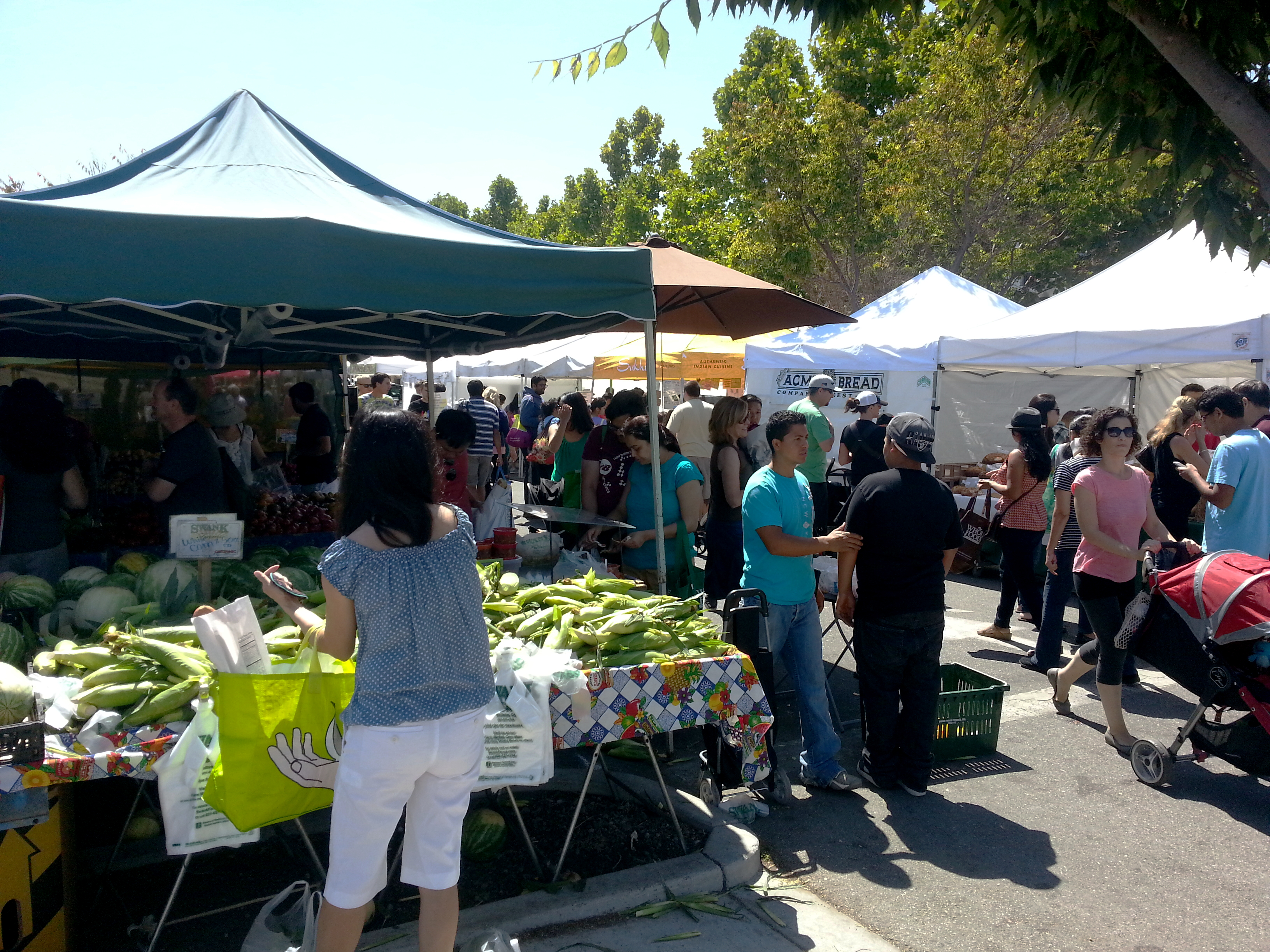 Part of the weekly Mountain View Farmer's Market, held every Sunday in downtown Mountain View at the Caltrain/VTA train station parking lot.